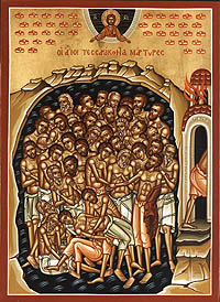 The Holy Forty Martyrs of Sebastia, suffered martyrdom in 320, and their names are: Acacius, Aetius, Aglaius, Alexander, Angus, Athanasius, Candidus, Chudion, Claudius, Cyril, Cyrion, Dometian, Domnus, Ecdicius, Elias, Eunoicus, Eutyches, Eutychius, Flavius, Gaius, Gorgonius, Helianus, Herachus, Hesychius, John, Lysimachus, Meliton, Nicholas, Philoctemon, Priscus, Sacerdon, Severian, Sisinius, Smaragdus, Theodulus, Theophilus, VaIens, Valerius, Vivianus, and Xanthias.